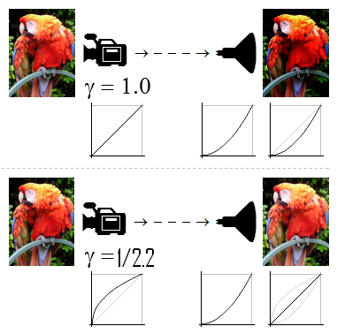 Schematic representation on how TV signals are gamma-compensaed when broadcasted